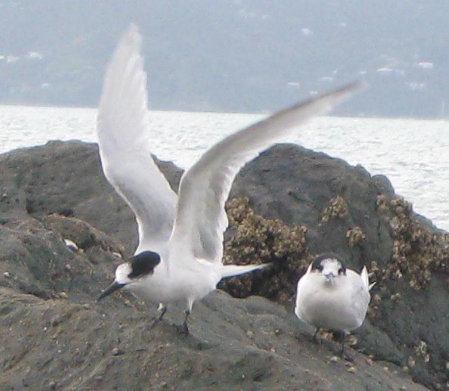 White-fronted Terns, Omana, North Island, New Zealand